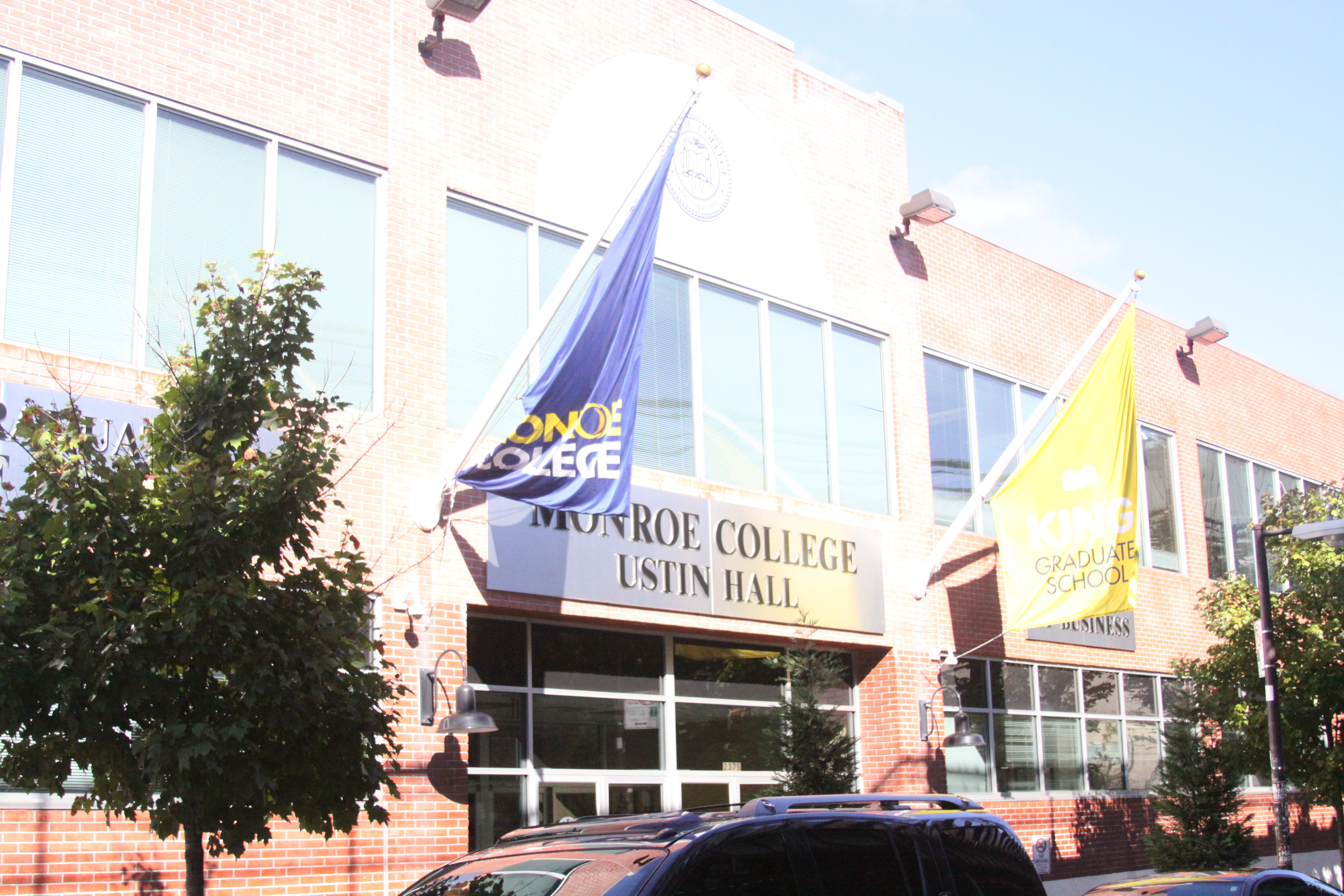 Ustin Hall School of business Monroe College Bronx New York